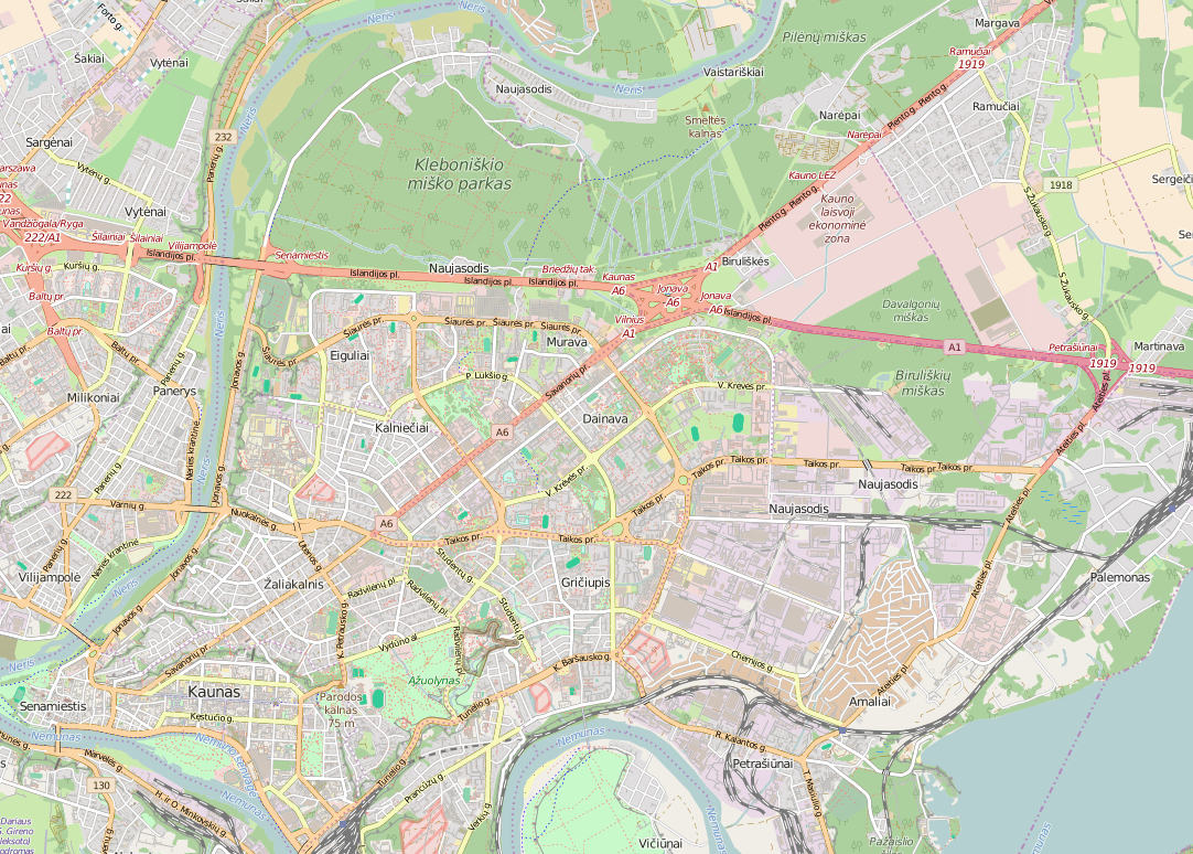 Kaunas as generated in OpenStreetMap (Mapnik layer) This map may be incomplete, and may contain errors. Don't rely solely on it for navigation.